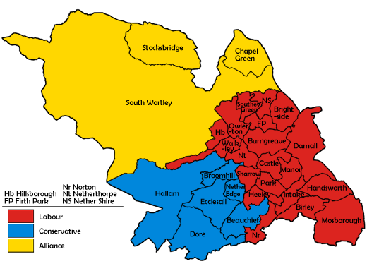 Ward map of Sheffield Council with political colouring for the 1983 election.